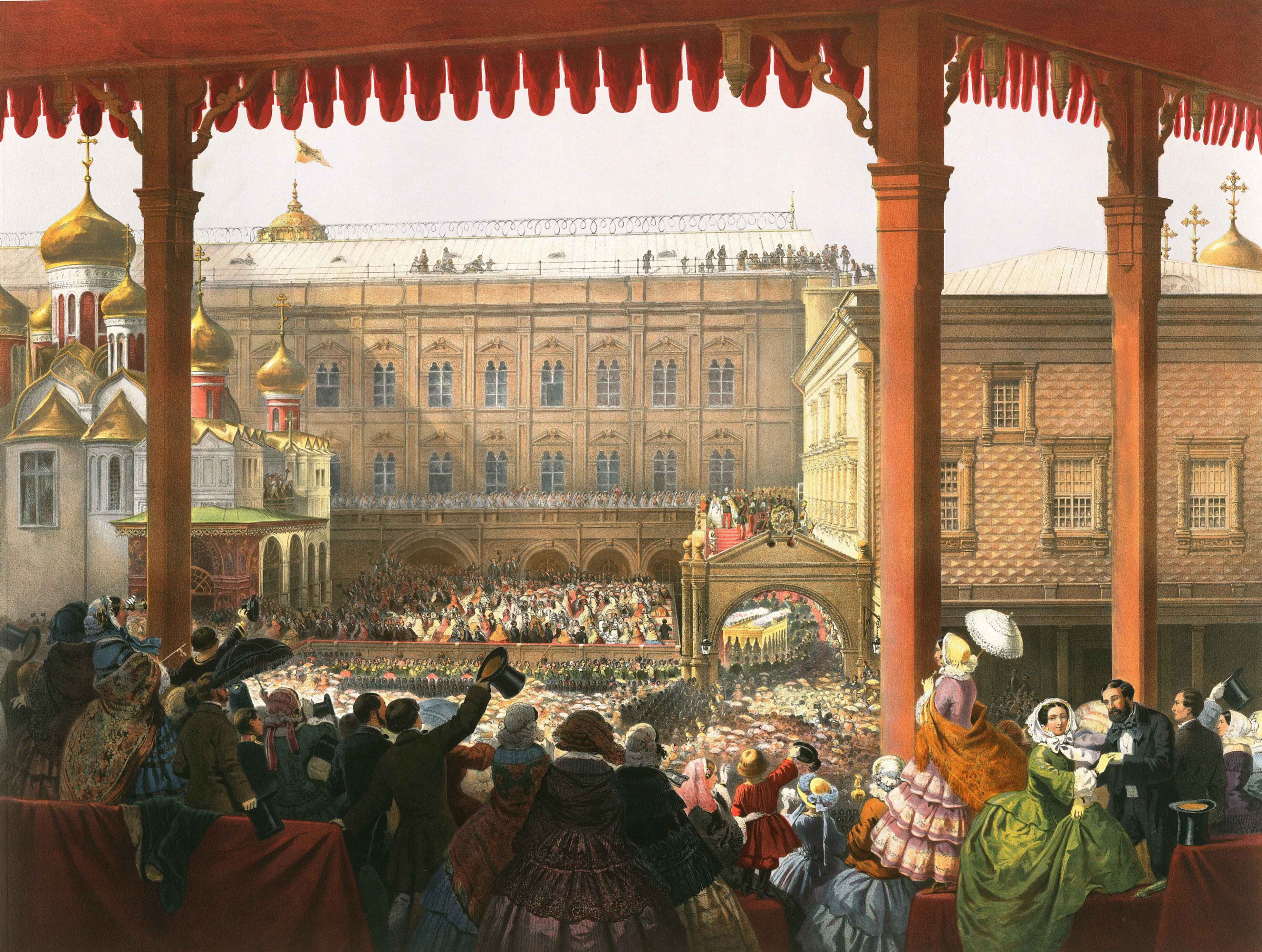 Bow to the People / Der Kaiser grüßt das Volk von der Roten Treppe (Chromolithographie)